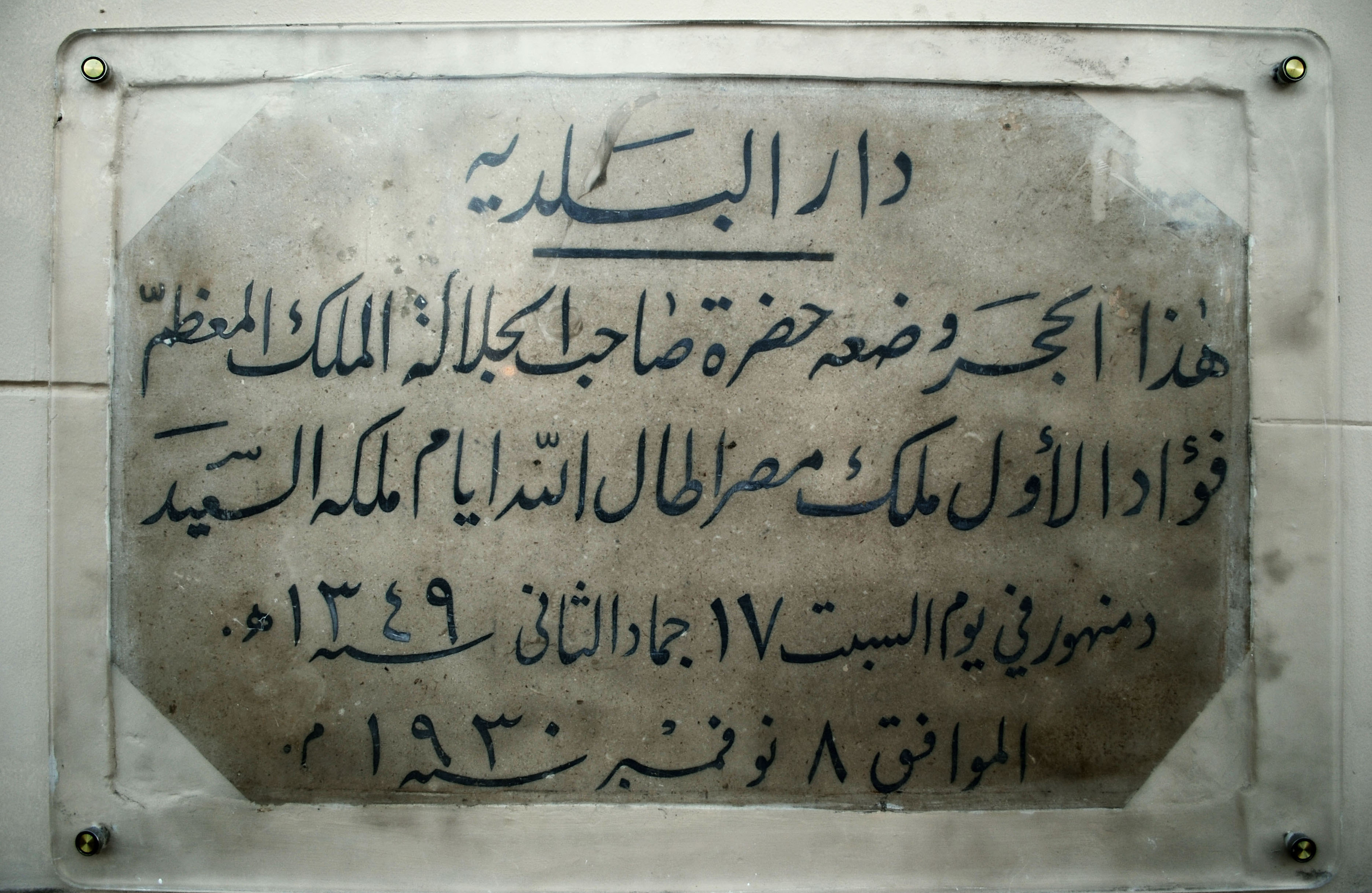 حجر اساس دار البلدية واوبرا دمنهور ووضع هذا الحجر في عهد الملك فؤاد الأول عام 1930م